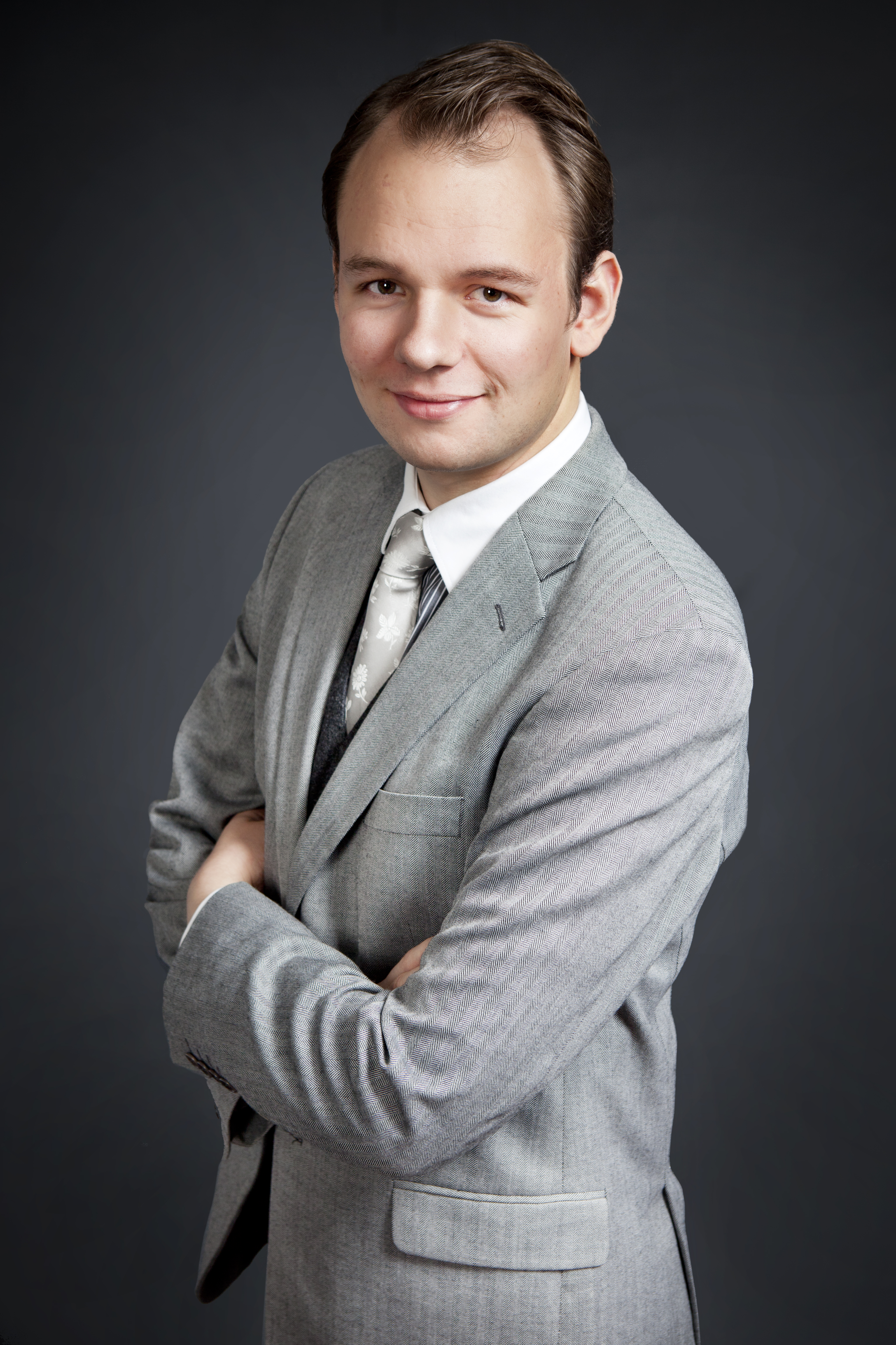 Christopher S. Pedersen Christopher Pedersen Baryton Pedersang